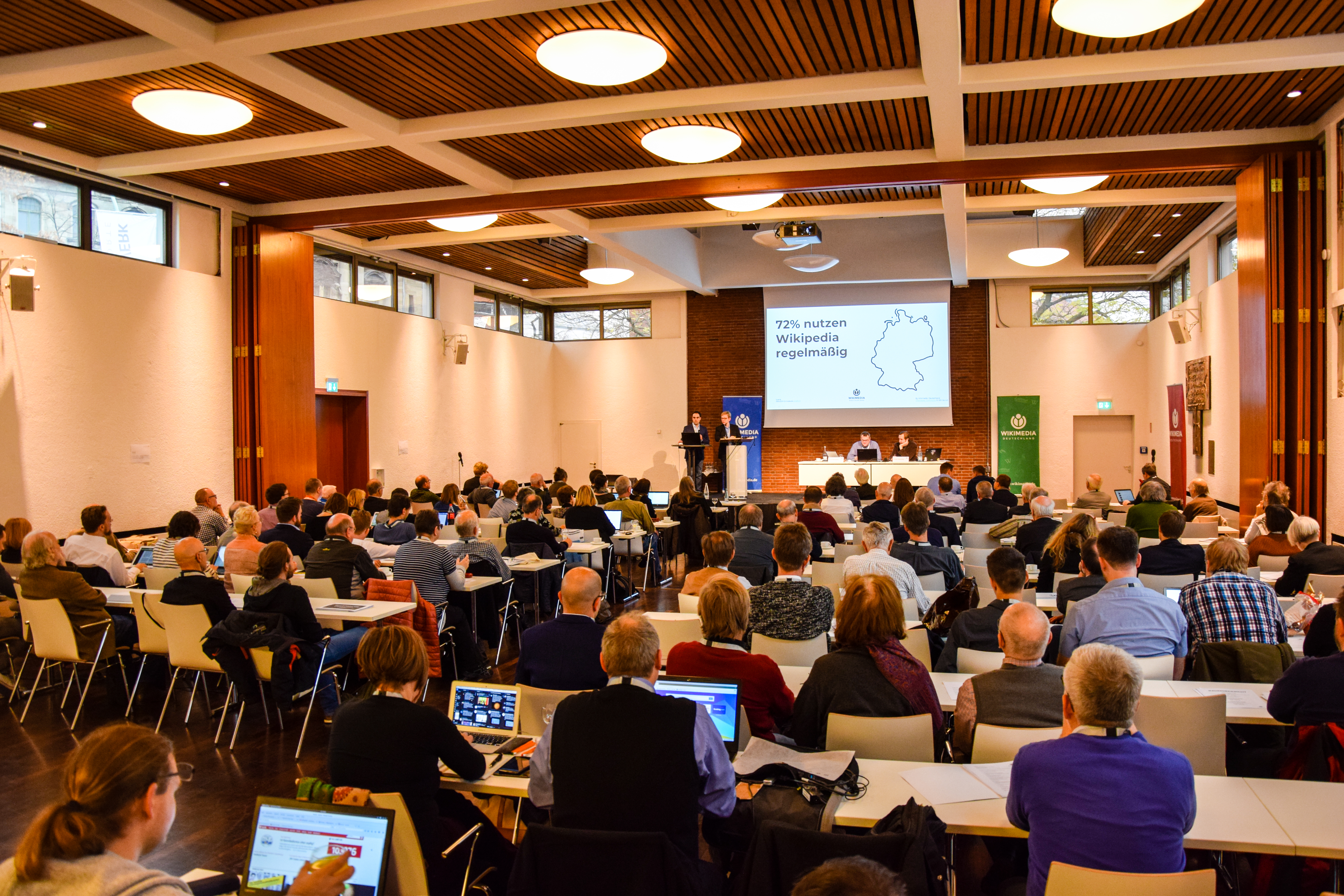 Main Hall of Wikimedia Deutschland general assembly on 18.11.2017